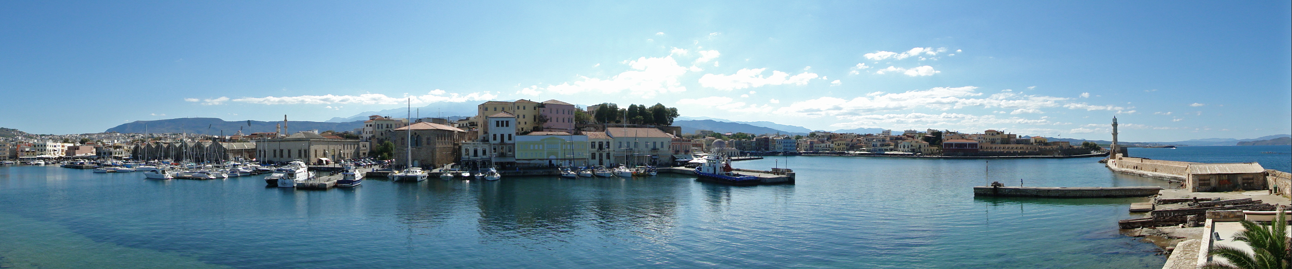 View of Chania Old Harbour, Crete, Greece